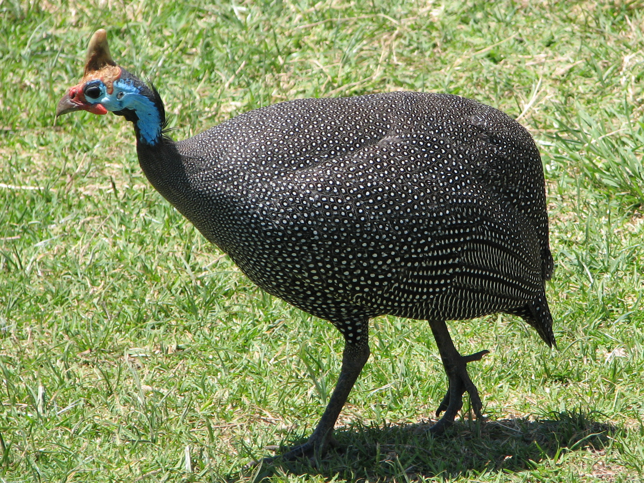 Helmet guineafowl in Tanzania